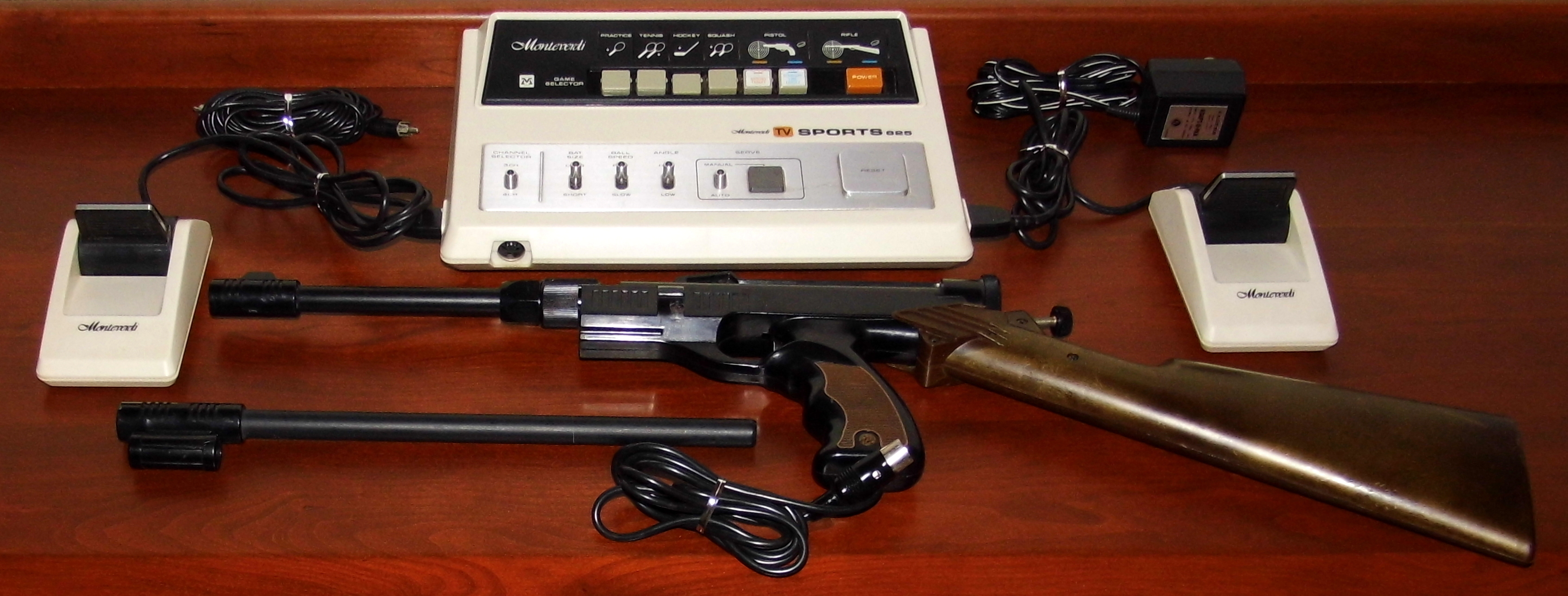 The Monteverdi TV Sports 825 is a first generation home video game. It hooks up to a television set for instant home entertainment. Game selection includes: Practice, Tennis, Hockey, Squash, Rifle and Pistol with a moving target or a straight line target. You can also choose long or short bat size, fast or slow ball speed, high or low angle and manual or auto serve.